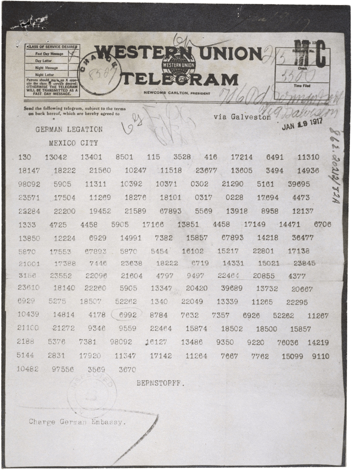 Title:Zimmermann Telegram, 1917 From: Decimal File, 1910-1929, 862.20212/82A (1910-1929); General Records of the Department of State; Record Group 59; National Archives. Production Date:January 19, 1917 This telegram, written by German Foreign Secretary Arthur Zimmermann and received by the German Ambassador to Mexico on January 19, 1917, is a coded message sent to Mexico, proposing a military alliance against the United States. The obvious threats to the United States contained in the telegram inflamed American public opinion against Germany and helped convince Congress to declare war against Germany in 1917. Persistent URL: Access Restrictions: Unrestricted Use Restrictions: Unrestricted